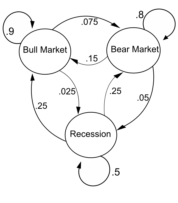 I made this, admittedly rather bad, figure as a simple example of a Markov chain.